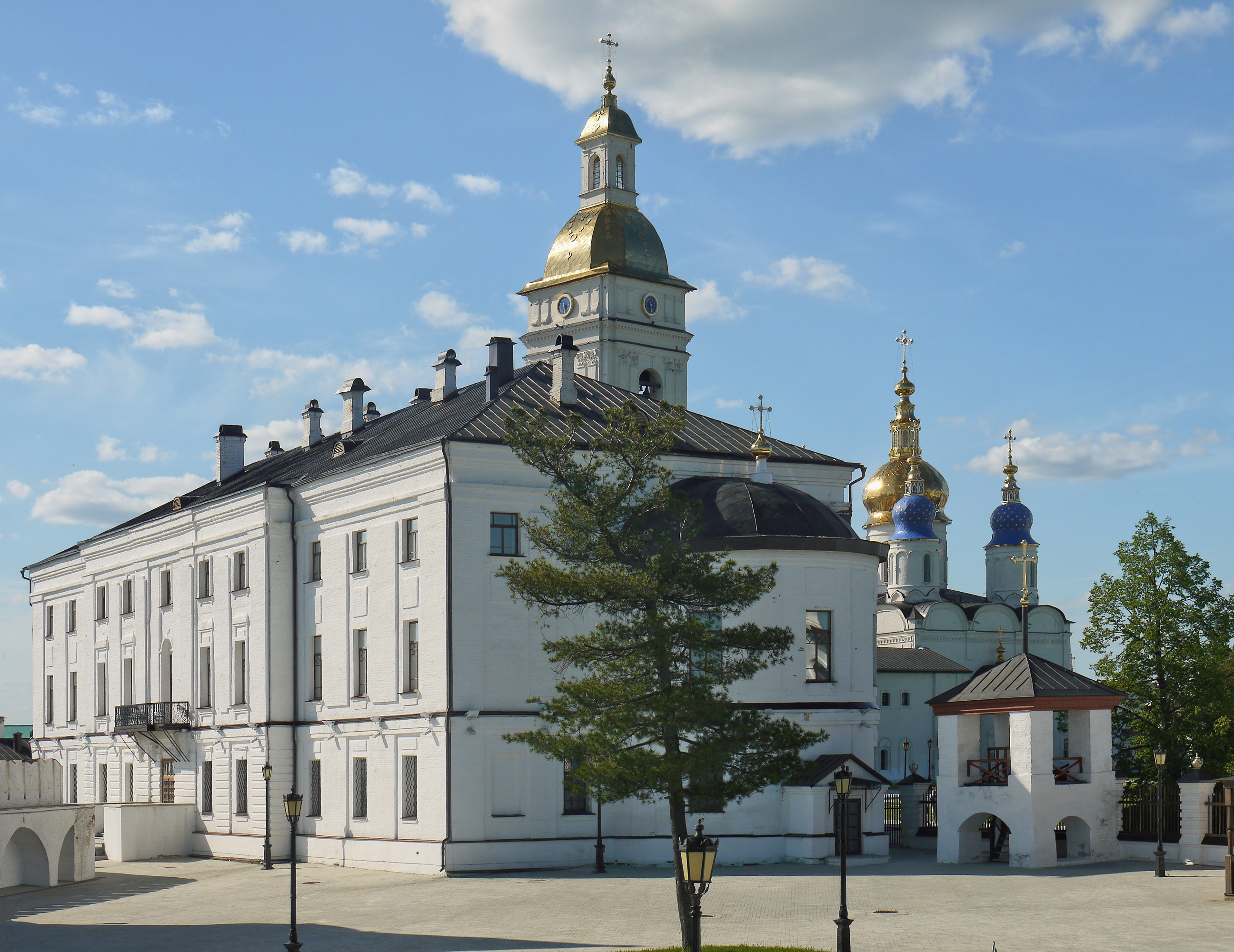 The Bishop's House.